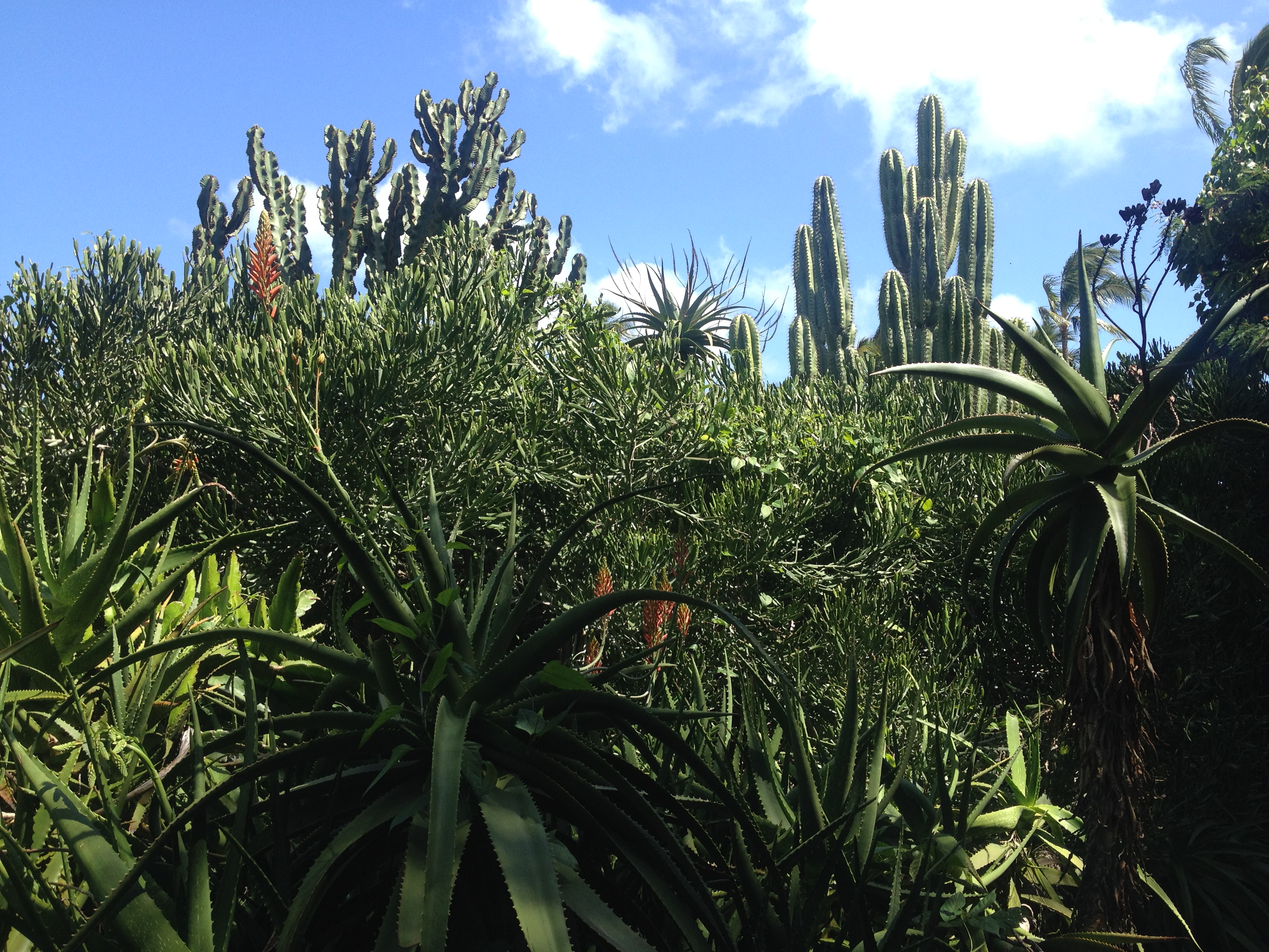 View of Moir Gardens, Poipu, Kaua'i, Hawaii.